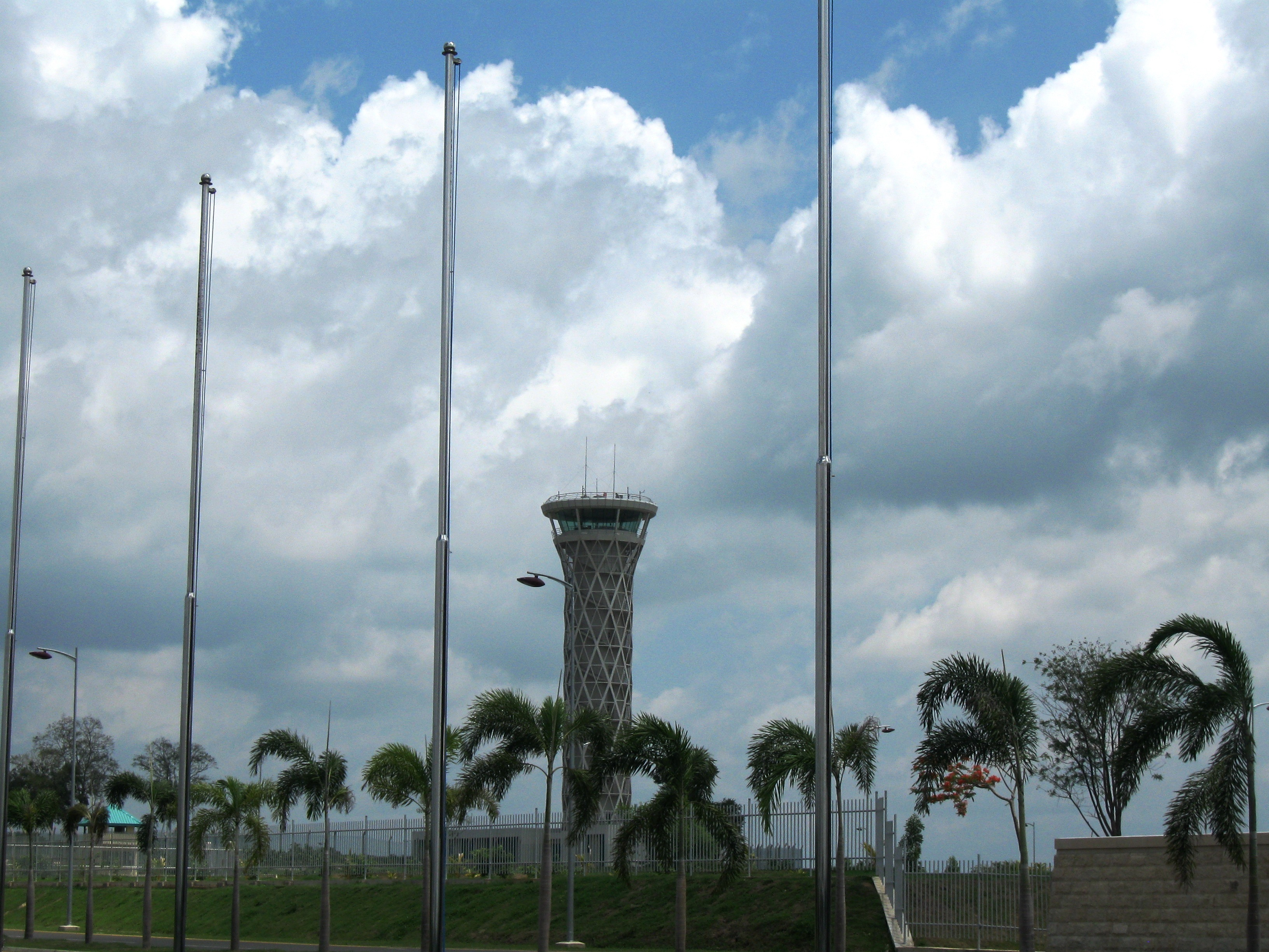 Photograph of Mattala Rajapaksa International Airport control tower